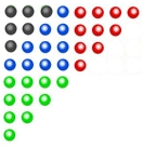 Triangular number made of 3 equal triamgular numbr. ja one miner is a triangular number